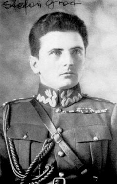 General Stefan Rowecki (1895-1943) - polish commander, officer of Polish Army, leader of the Home Army